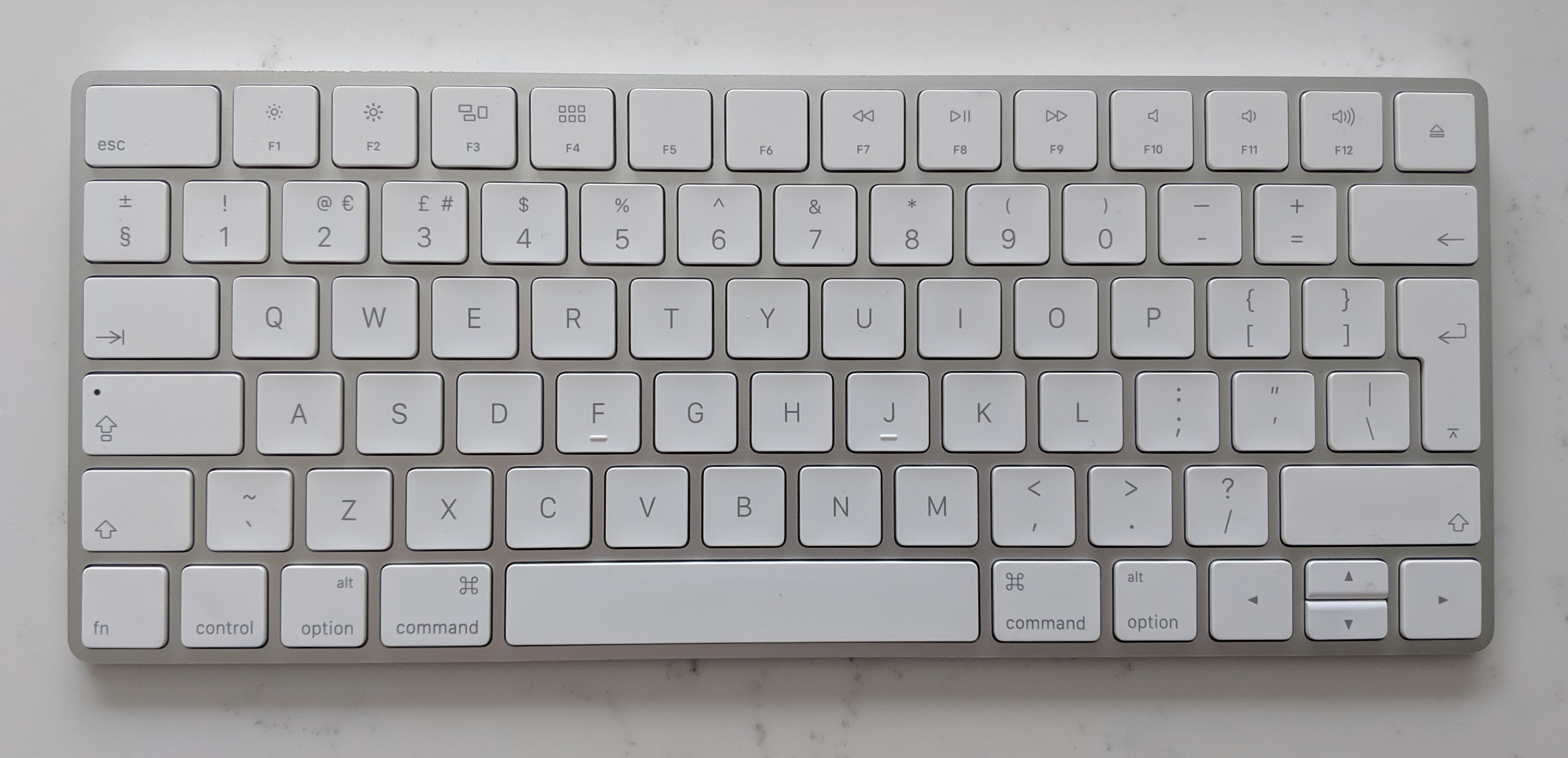 Apple Magic Keyboard with UK layout